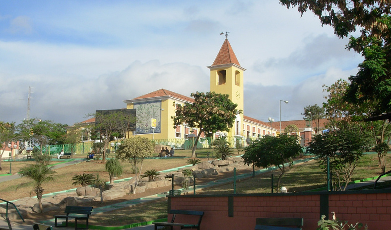 Lyceum Salvador Correia in Luanda, Angola.